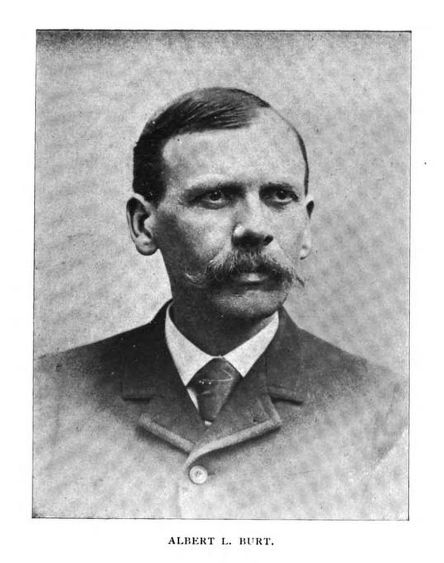 Undated portrait of Albert Levi Burt, as published in "Early days in New England: life and times of Henry Burt of Springfield and some of his descendants" (1893).